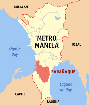 Locator map of Parañaque City in Metro Manila, Philippines.